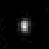 Himalia, photographed by the Cassini probe, December 2000